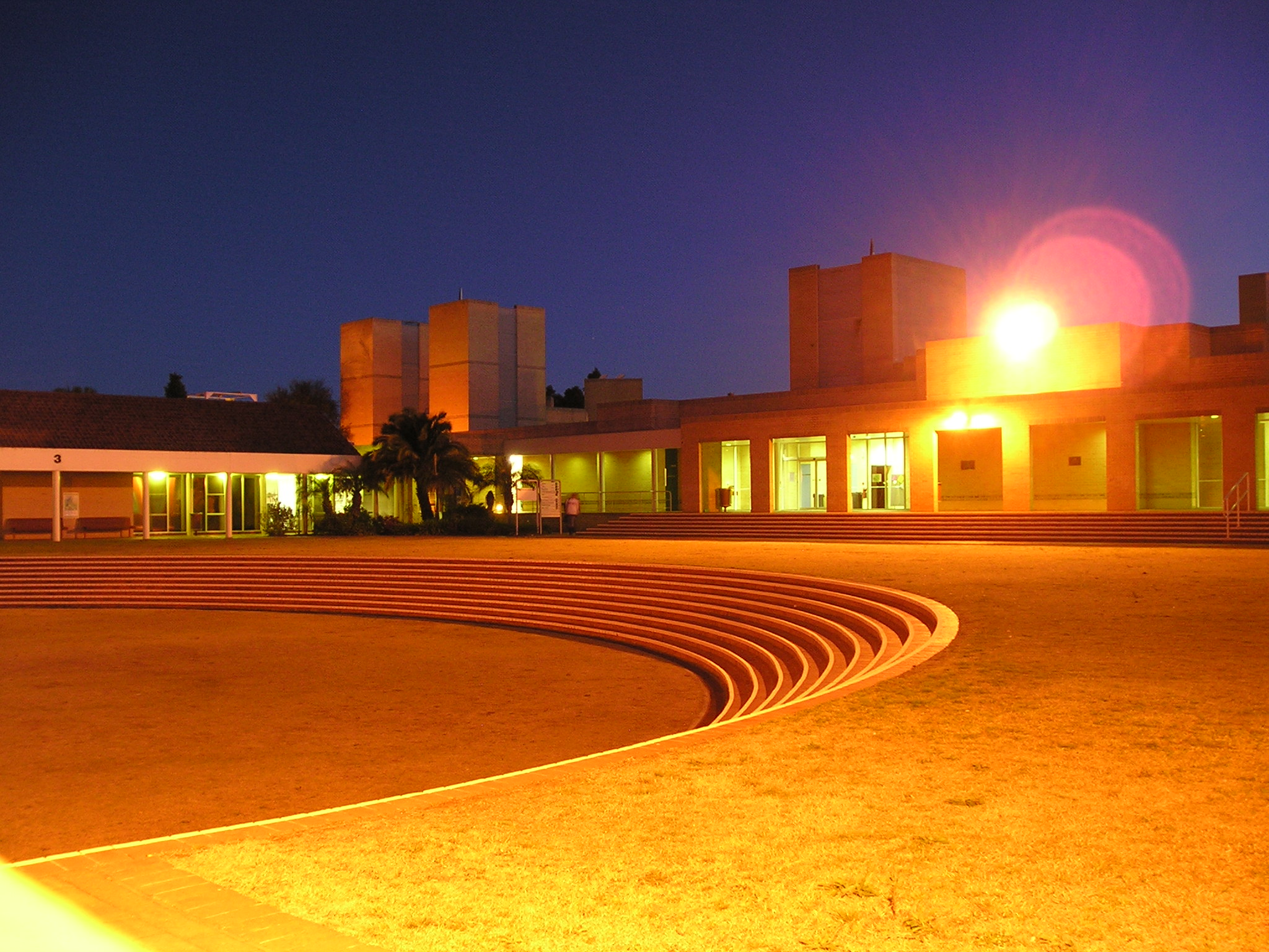 University of Western Sydney (Campbelltown Campus) at night - photo taken 2006